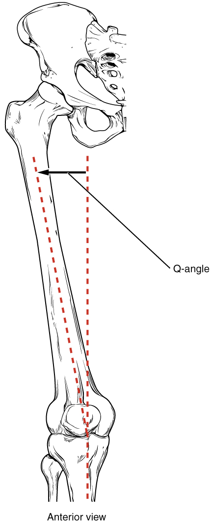 Anatomy & Physiology, Connexions Web site. Jun 19, 2013.